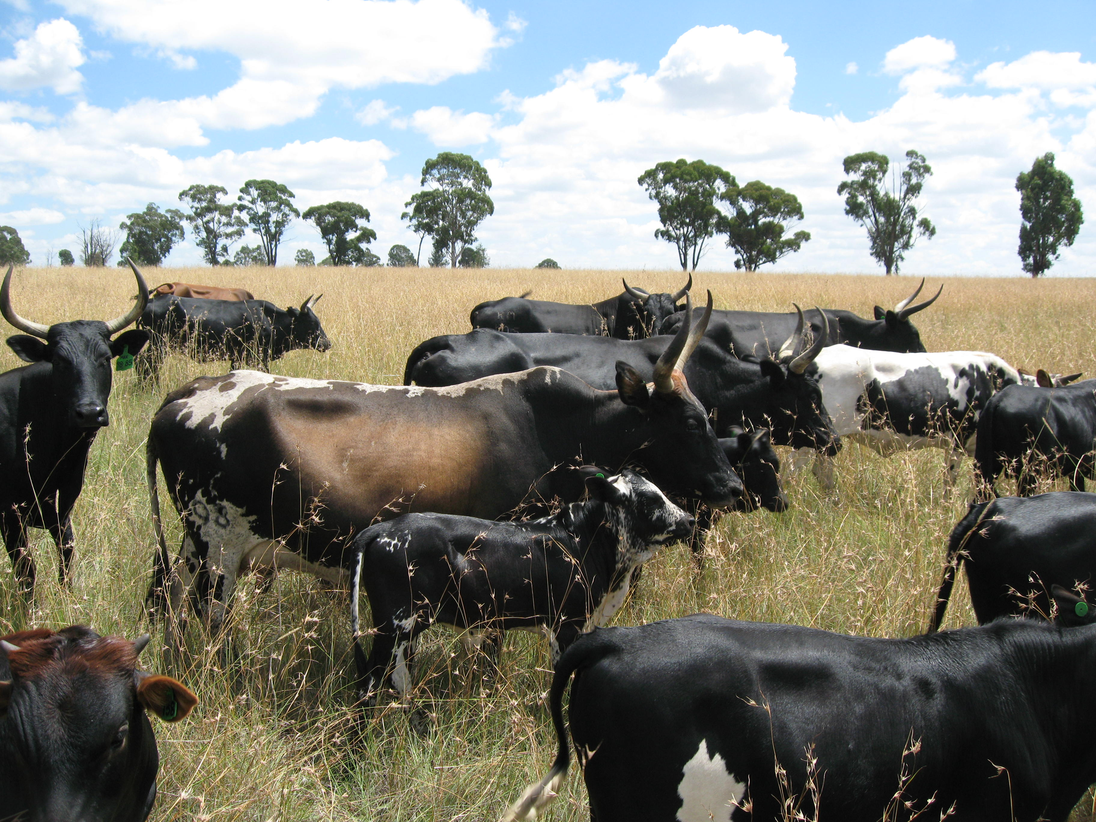 Nguni Cattle – Nguni cow herd (Makatini ecotype), see Mkhaya Game Reserve